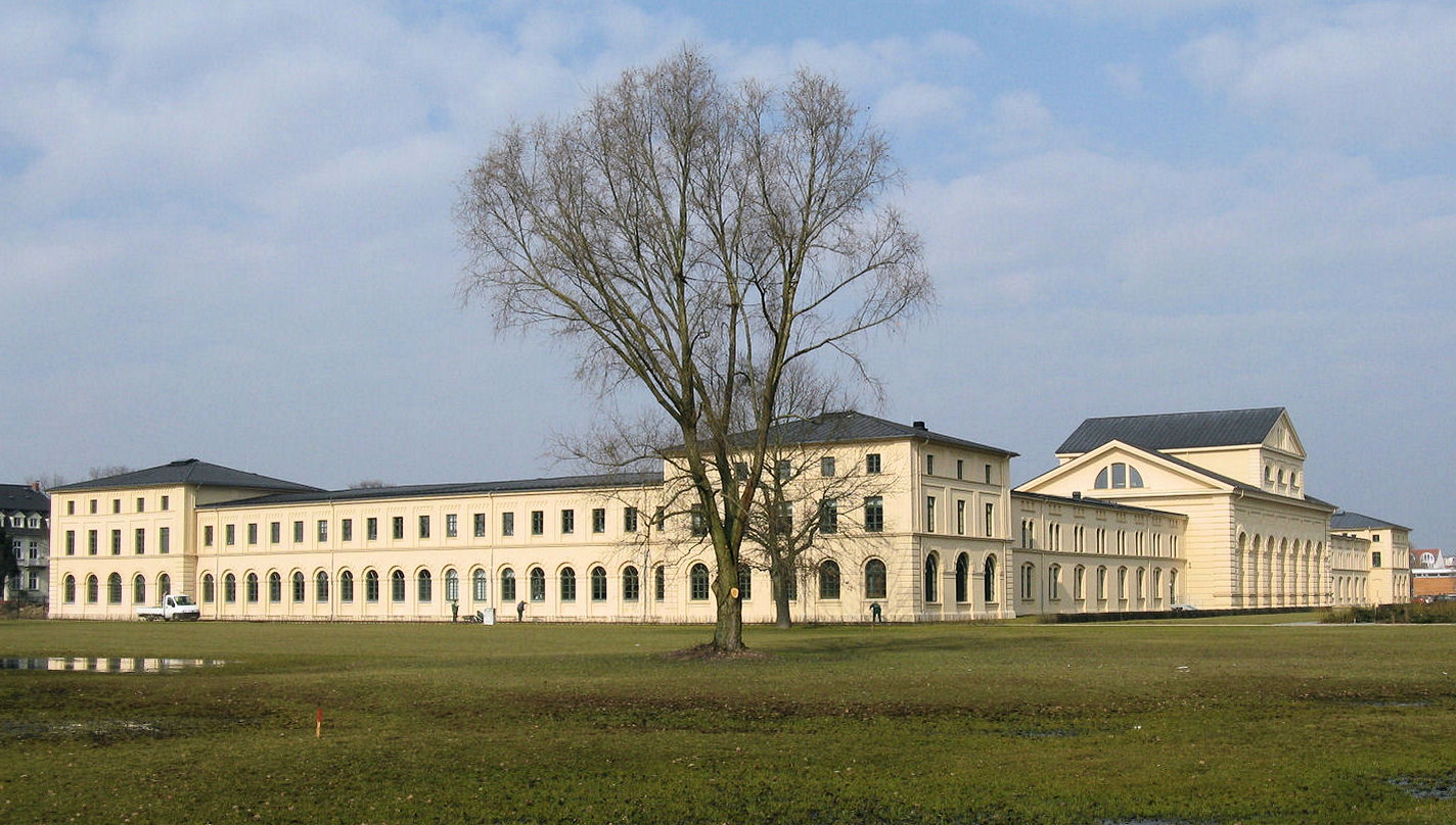 Stable in Schwerin, Mecklenburg-Vorpommern, Germany